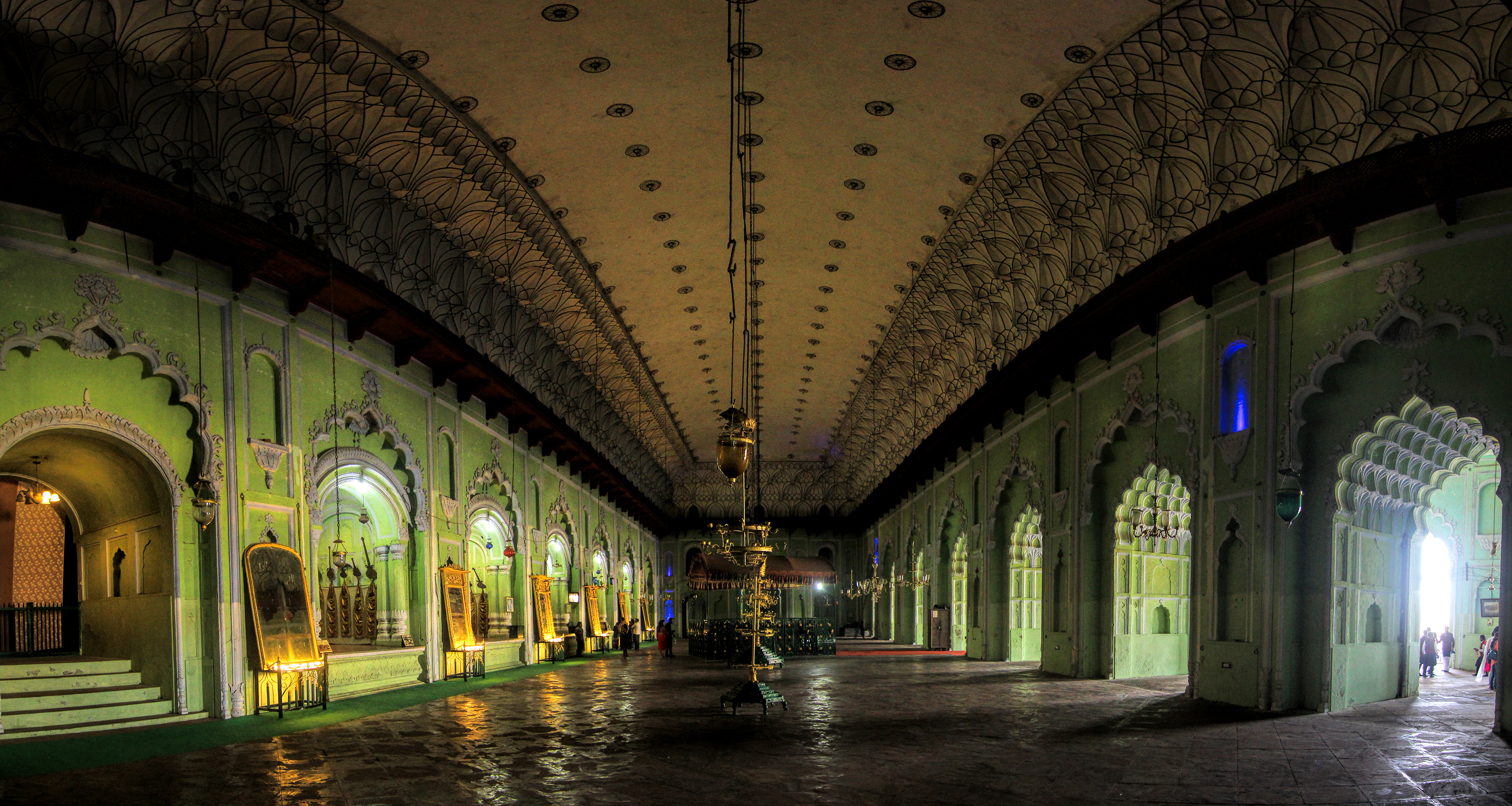 Imambara of Asaf-ud-daula